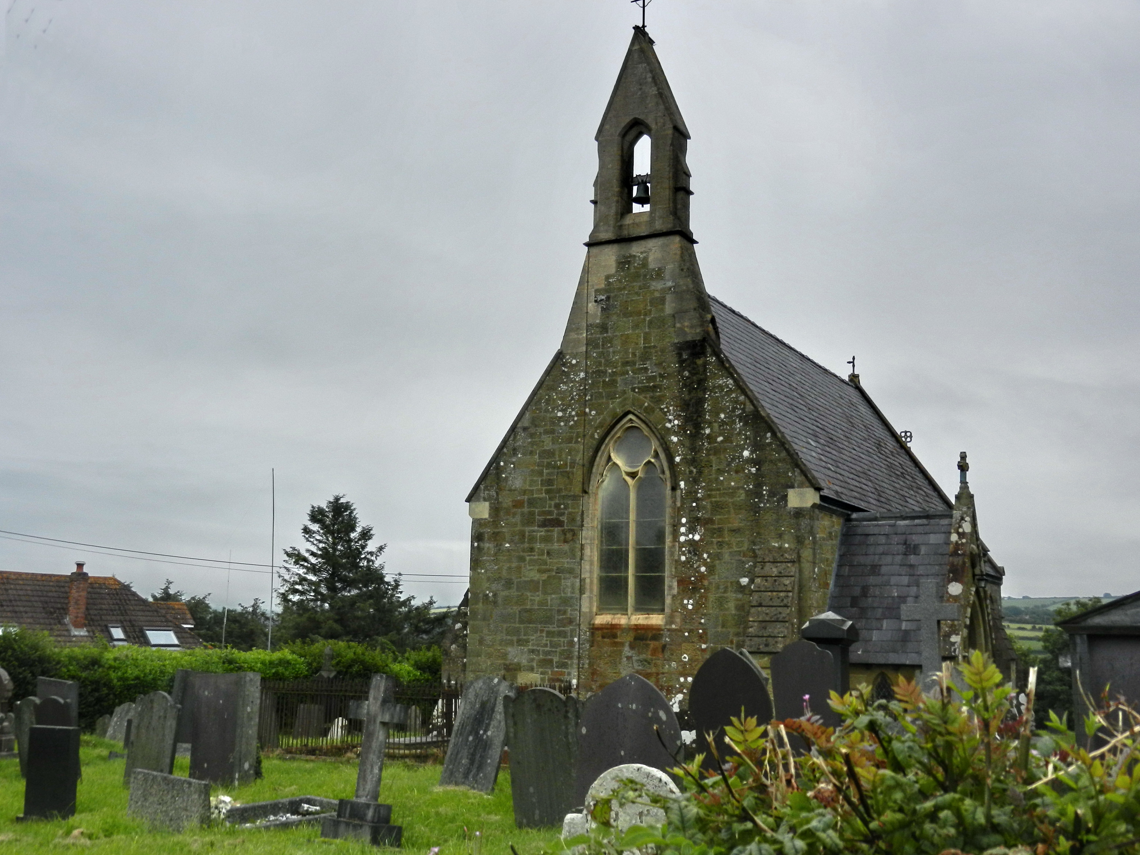 Aberporth